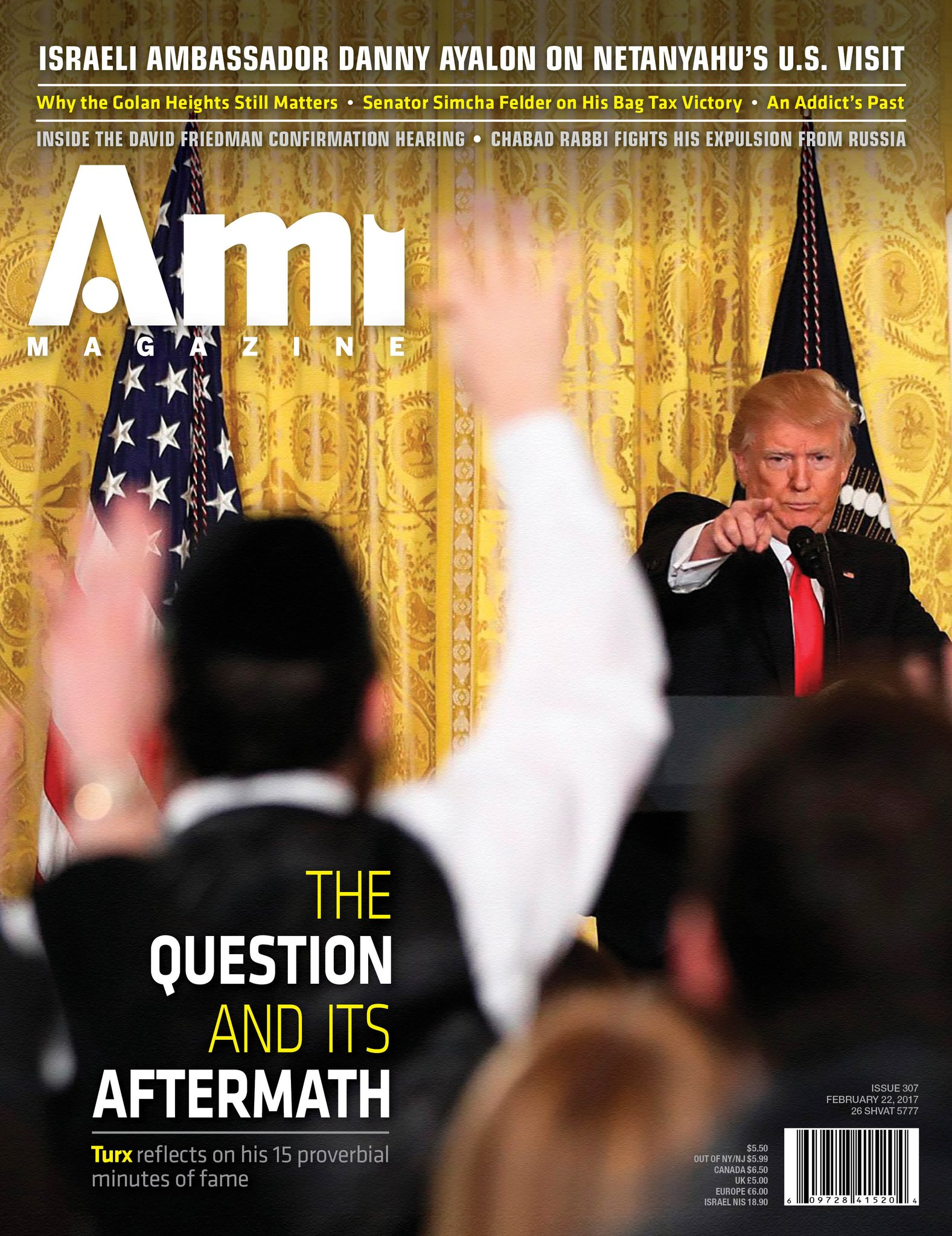 Jake Turx featured on the cover of Ami Magazine.